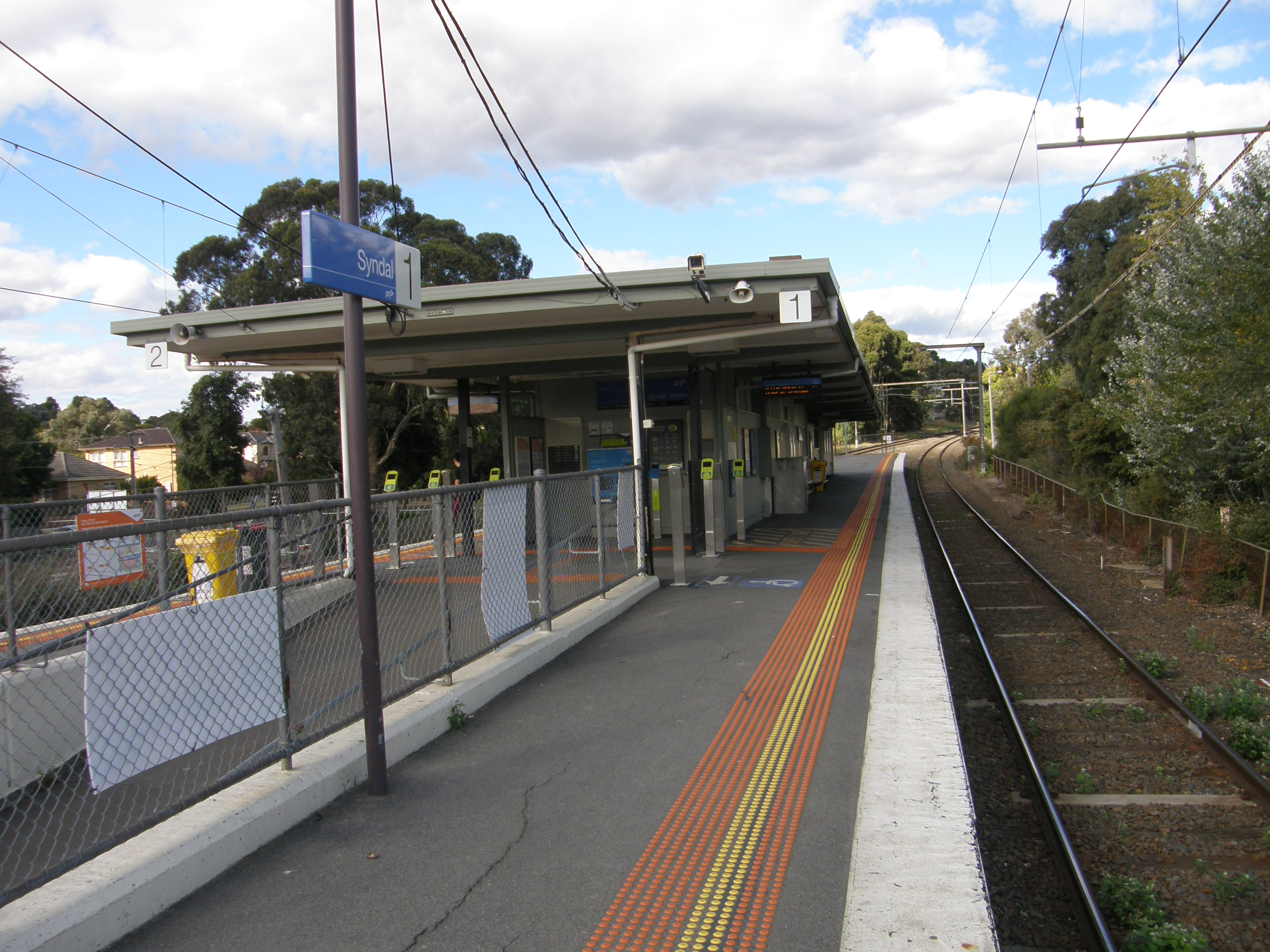 Syndal railway station platform.